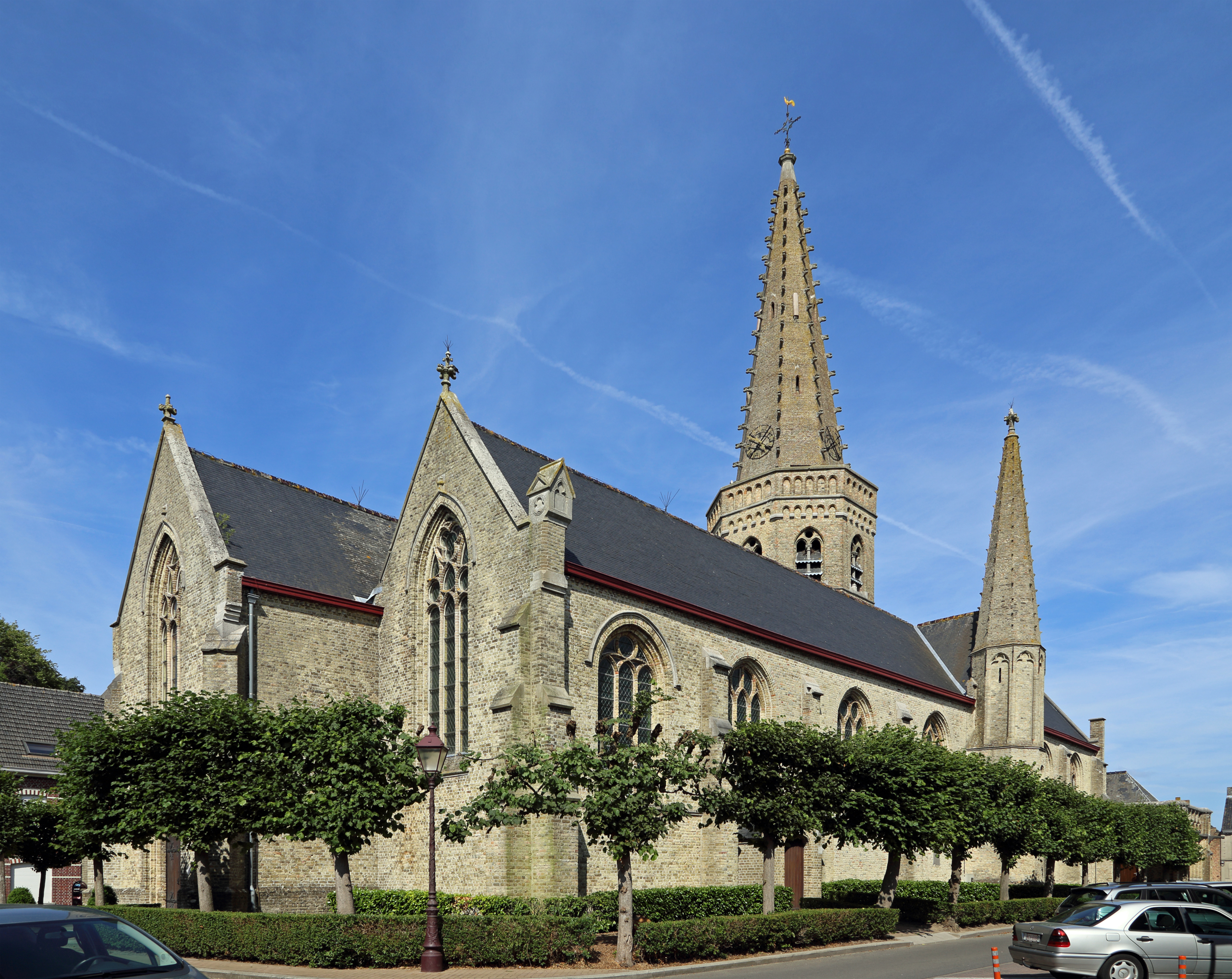 Handzame (municipality of Kortemark, province of West Flanders, Belgium): St Adrian's church